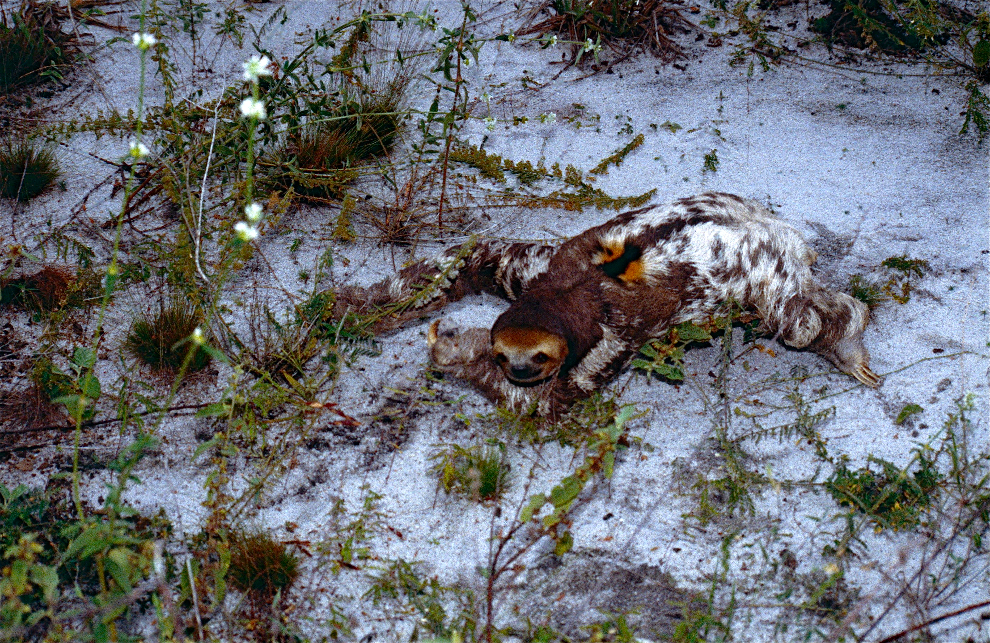 Route de Mana, Guyane, FRANCE Scanned Slide from 1998